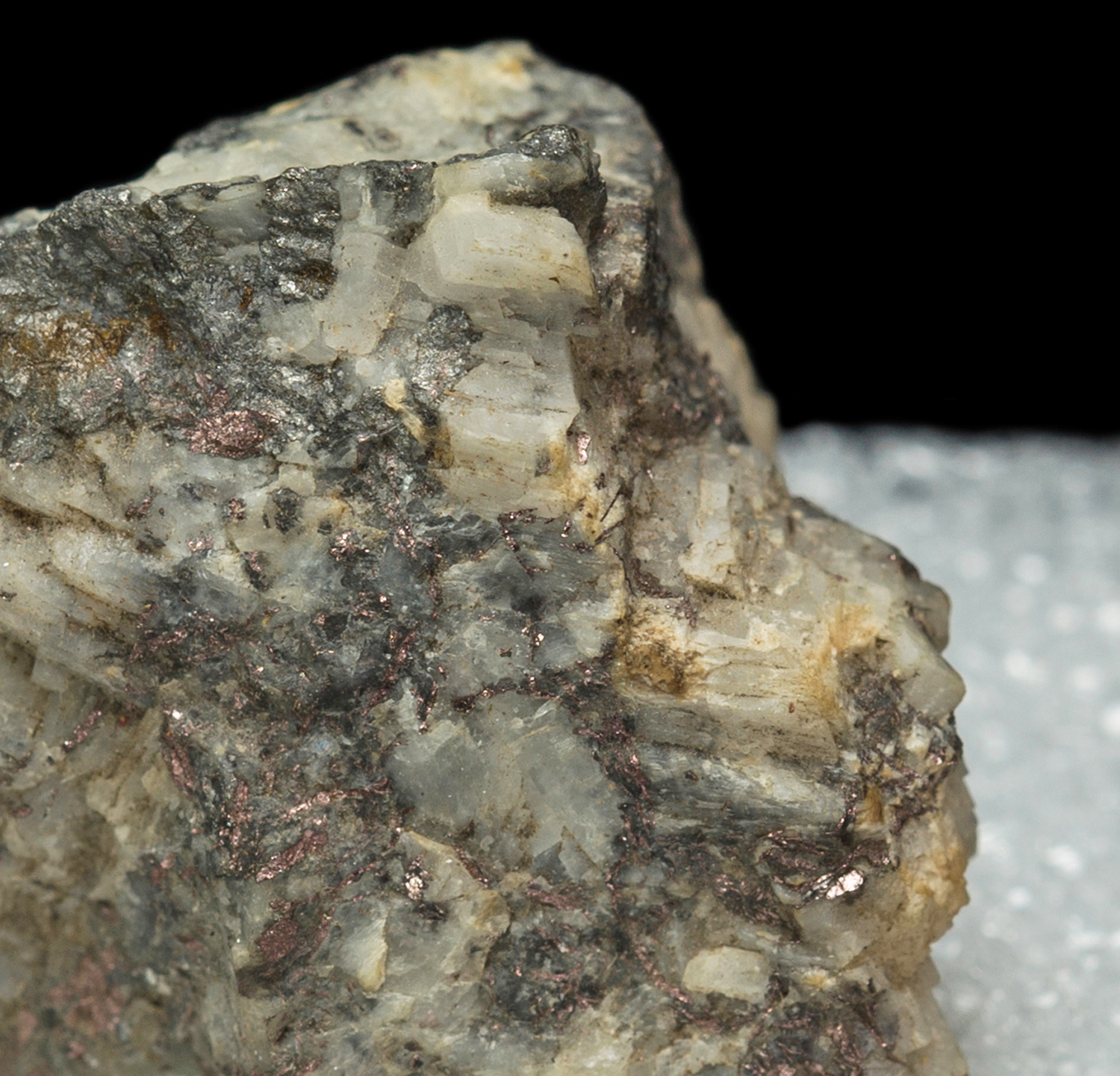 Breithauptite, Skutterudite, Calcite Dimensions: 3,1 cm x 2,6 cm x 2,3 cm Locality: St Andreasberg, Braunlage, Goslar District, Lower Saxony, Germany The historic mines at St. Andreasberg are the Type Locality for the rare nickel antimonide, breithauptite, a member of the Nickeline Group. It was named in 1840. It is distinguished by its bright copper-red color with a violet tint. Patches and isolated blebs of lustrous breithauptite with sections of gray smaltite, the arsenic-deficient variety of skutterudite are scattered in the miniature calcite matrix. Pink calcite fluorescence. The last mines closed in 1910 and wonderful specimens, such as this probably date to the mid to late 1800s. Ex Kay Robertson Collection # 3002 and acquired at the San Jose Show in 1963. Kay assembled a nice suite of classics and rarities from this famed district. Kay is a prominent California collector, who specialized in European classics (see the article in the March-April, 2007 Mineralogical Record). See the Mineralogical Record St. Andreasberg Special Issue, May-June, 2017, Vol. 48, No. 3. Quality breithauptite specimens are rare from here.